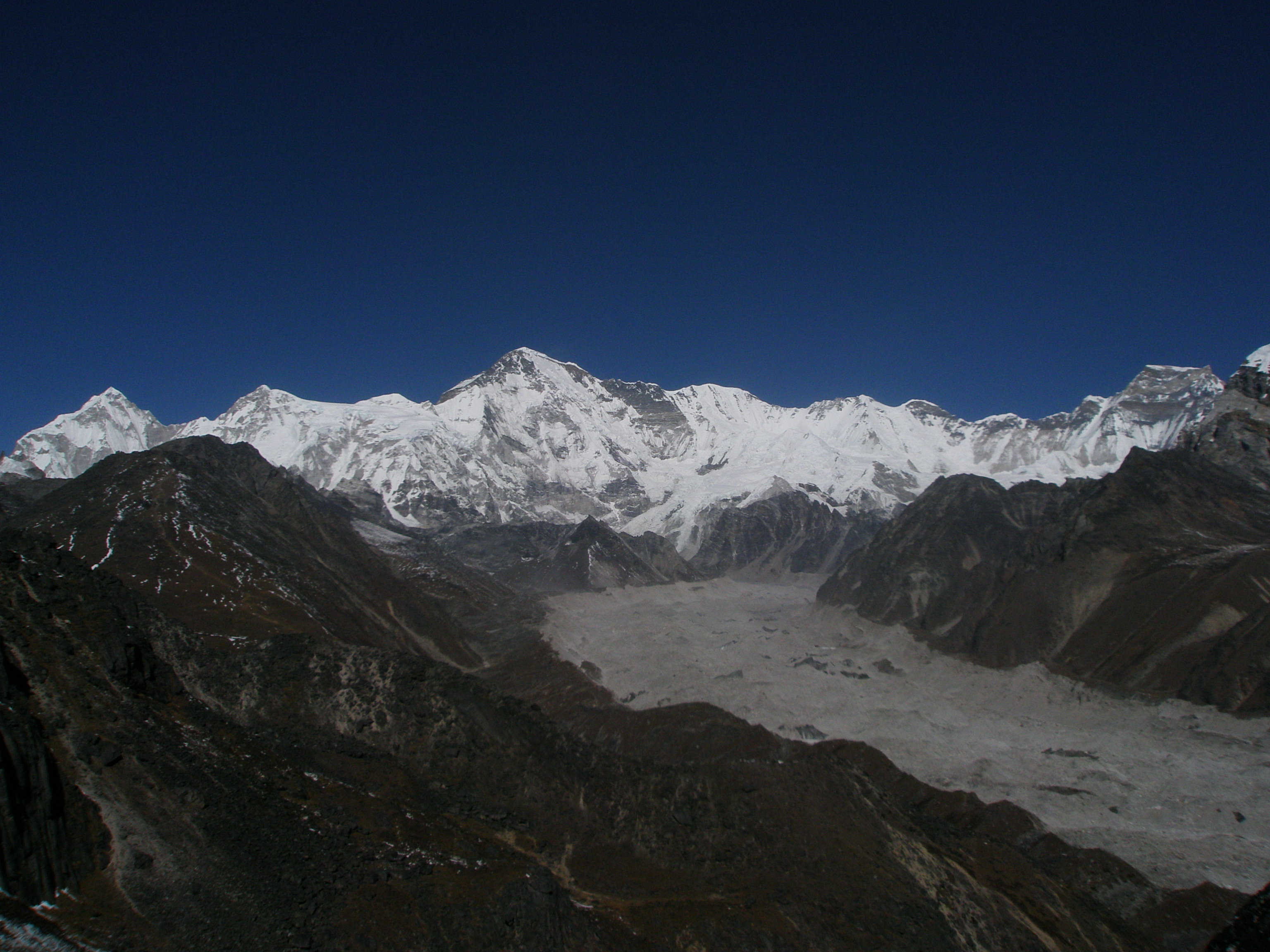 Ngozumpa glacier and the Cho Oyu Massif from south with Nangpai Gosum I (Jasemba) and II, Cho Oyu (centre) and Gyachung Kang (far right) and the summits of Ngozumpa Kang I, II and III between them.